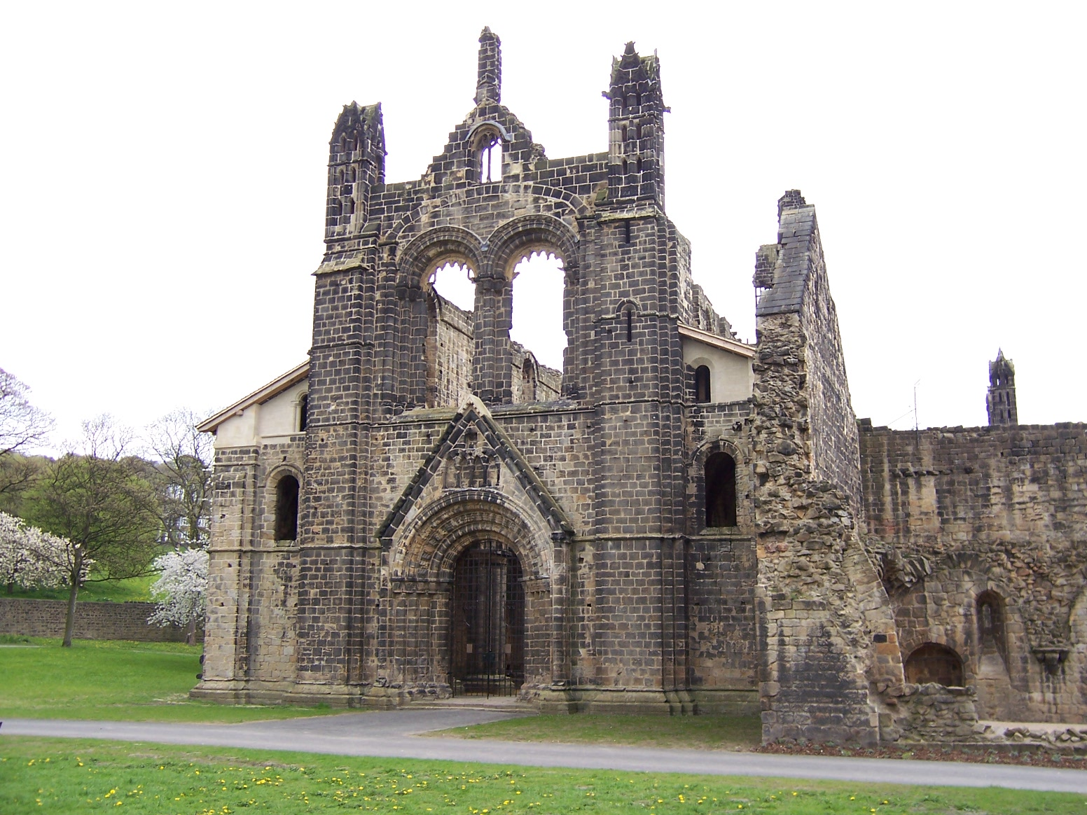 view of the church of Kirkstall Abbey in Leeds, Yorkshire (England), from the west own work; photo taken on 30 April 2006